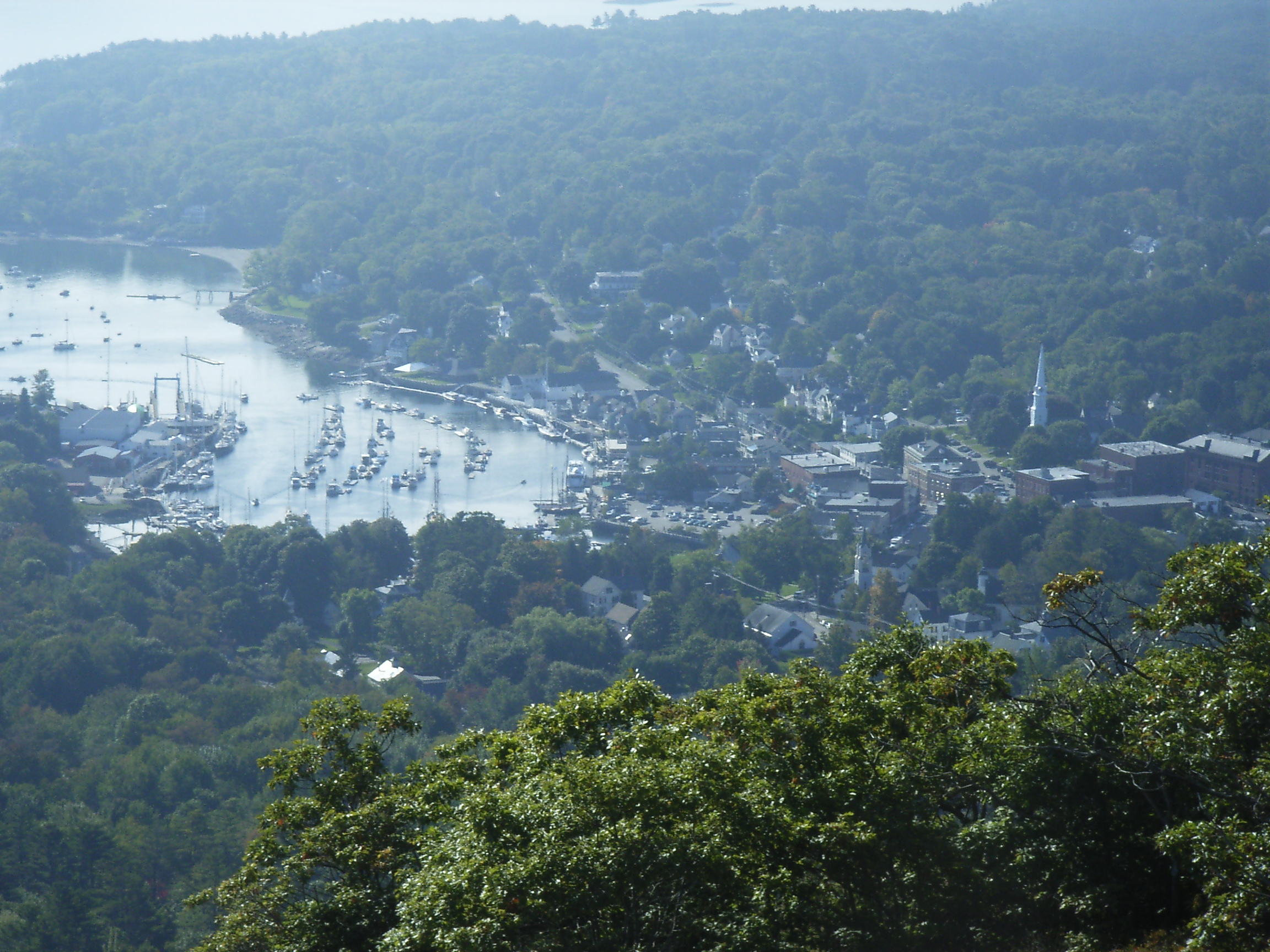 Camden, Maine, photographed from Ocean Outlook in Camden Hills State Park (on Megunticook Trail and Tablelands Trail)